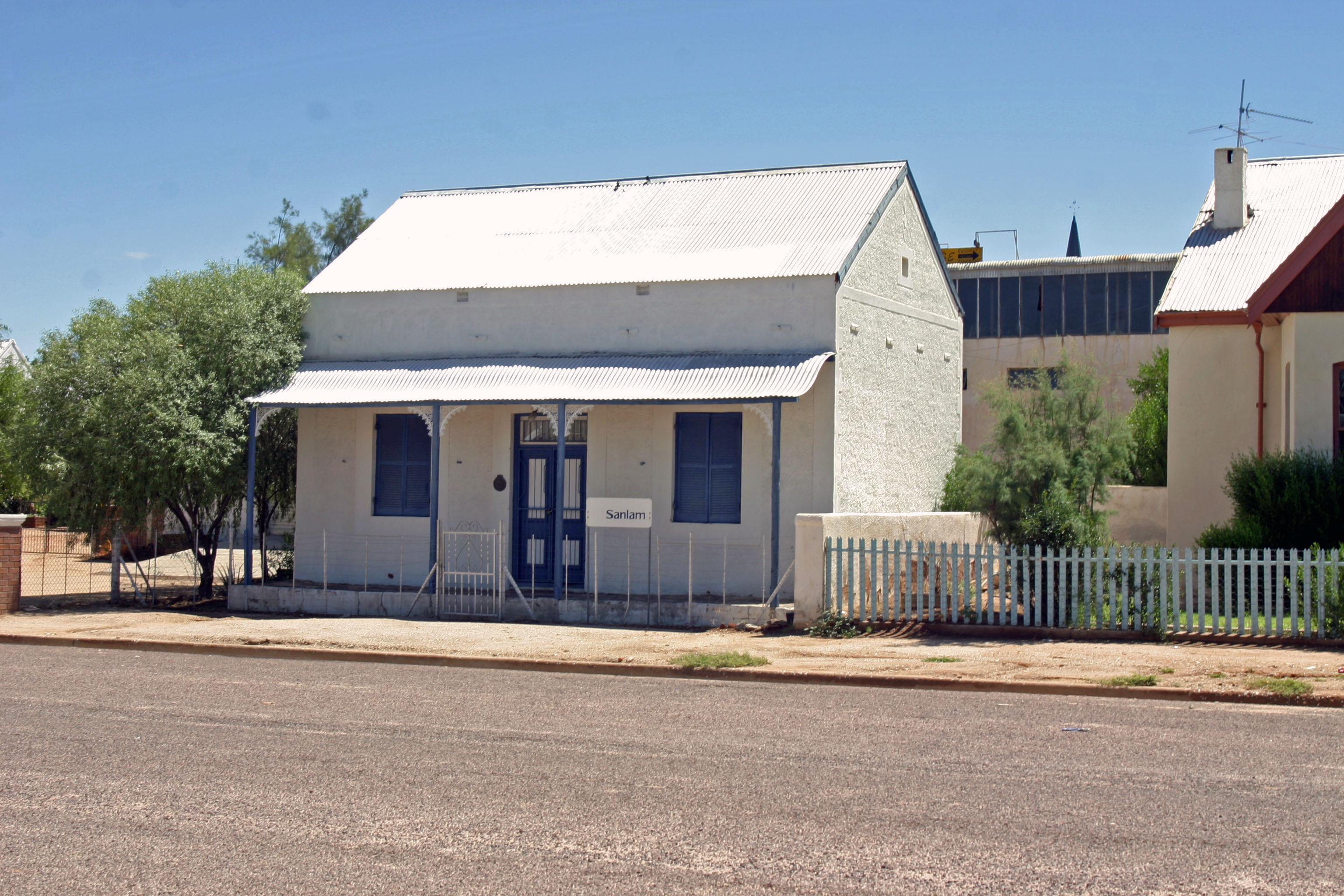 This building, which was erected in 1897, is a typical example of a pioneer house. It is one of the oldest buildings in Kenhardt and is of great historical importance to the area.